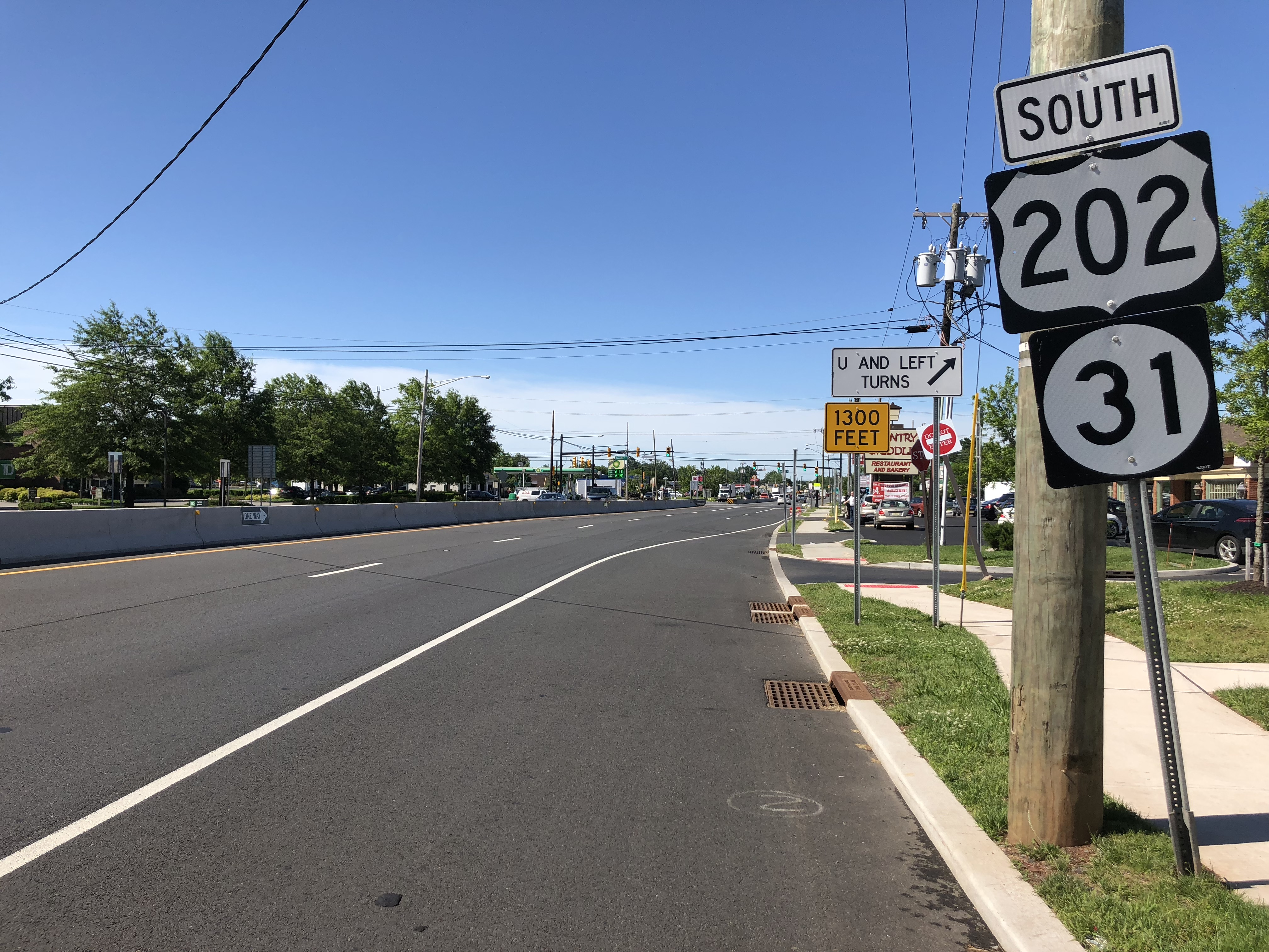 View south along U.S. Route 202 and New Jersey State Route 31 just south of the Flemington Circle in Flemington, Hunterdon County, New Jersey